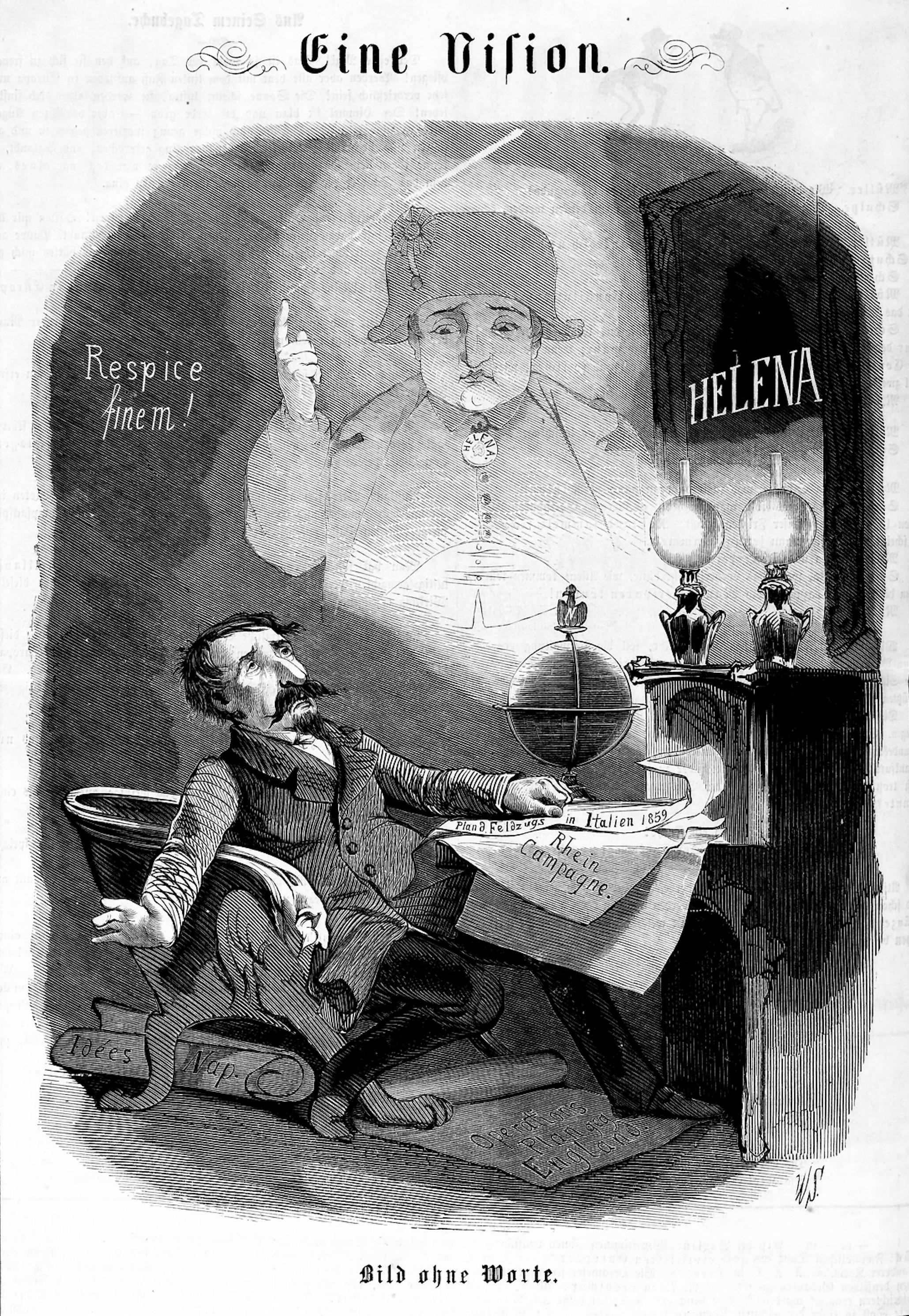 Karikatur, Kladderadatsch